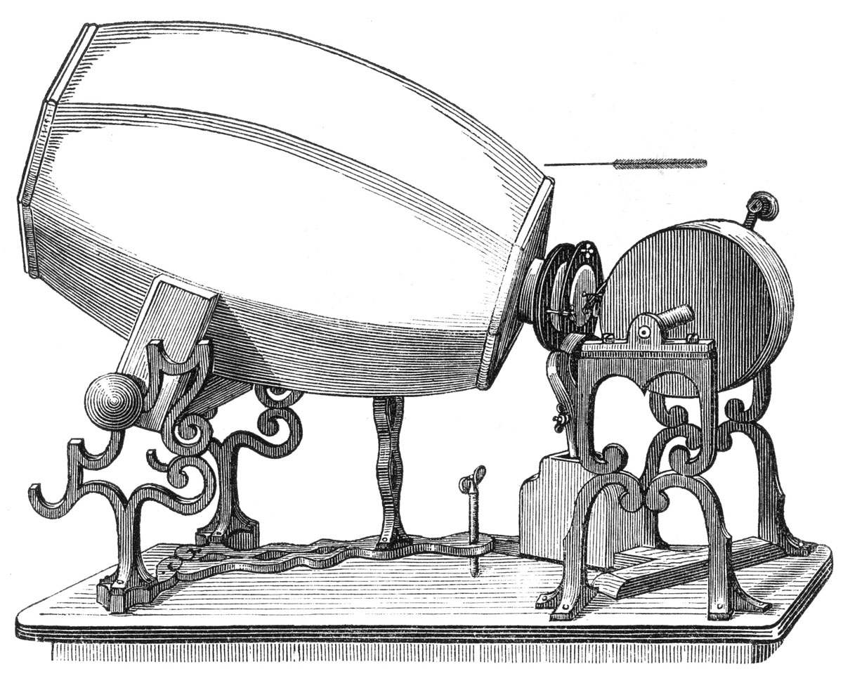 1859 model of Édouard-Léon Scott de Martinville's phonautograph.